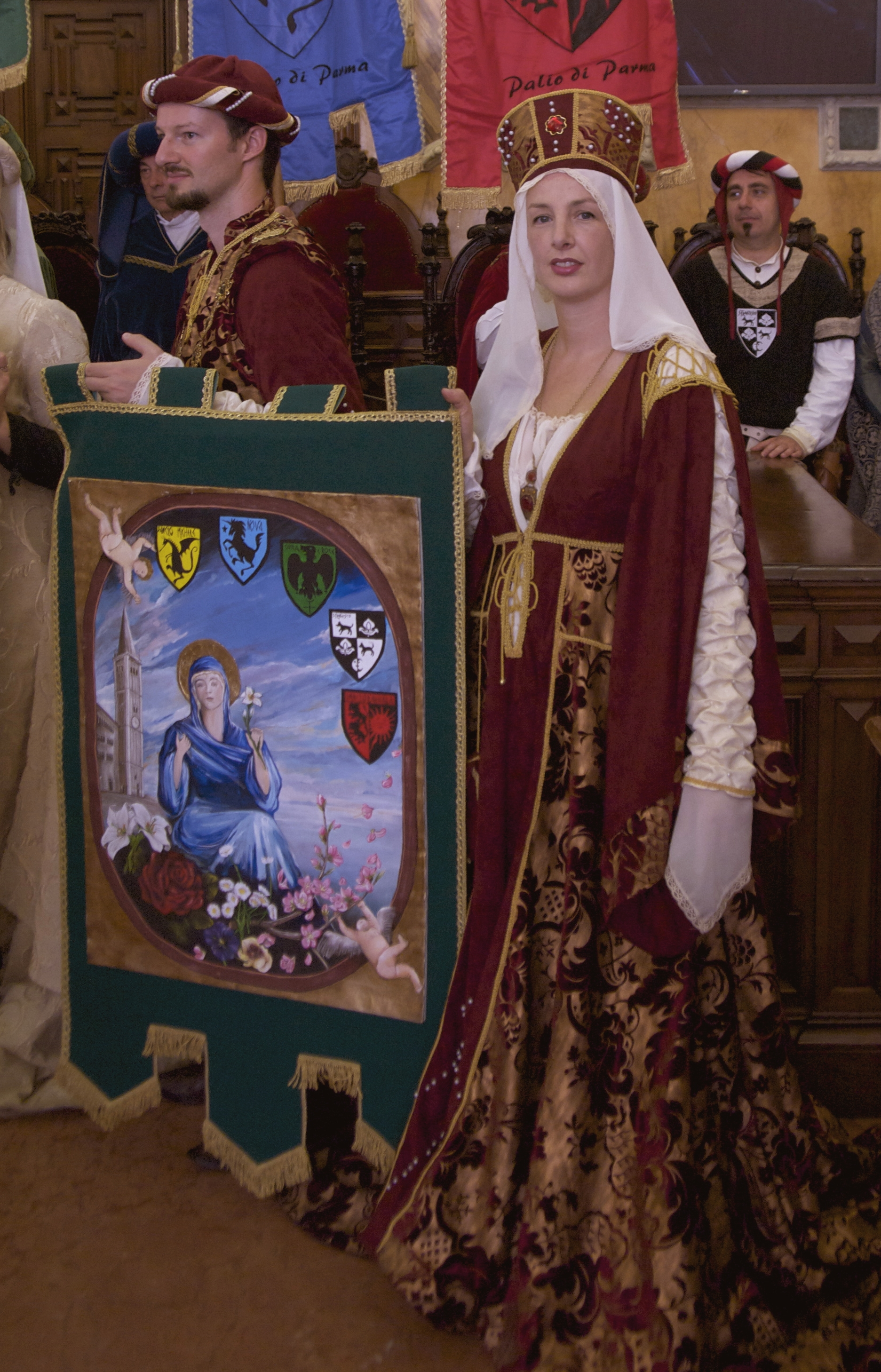 Palio of Parma: cerimony of presentation of the palio to the town authorities. This is the palio painted for the year 2012 for the women run.